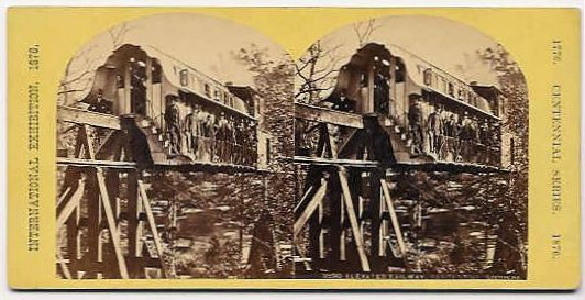 General LeRoy Stone's steam monorail was built at the Centennial Exposition marking the USA's 100th anniversary in 1876. It connected the Horticultural Hall with the Agricultural Hall via an elevated track extending about 155 m (170 yards), and appears to have been called "The Saddleback Railroad".